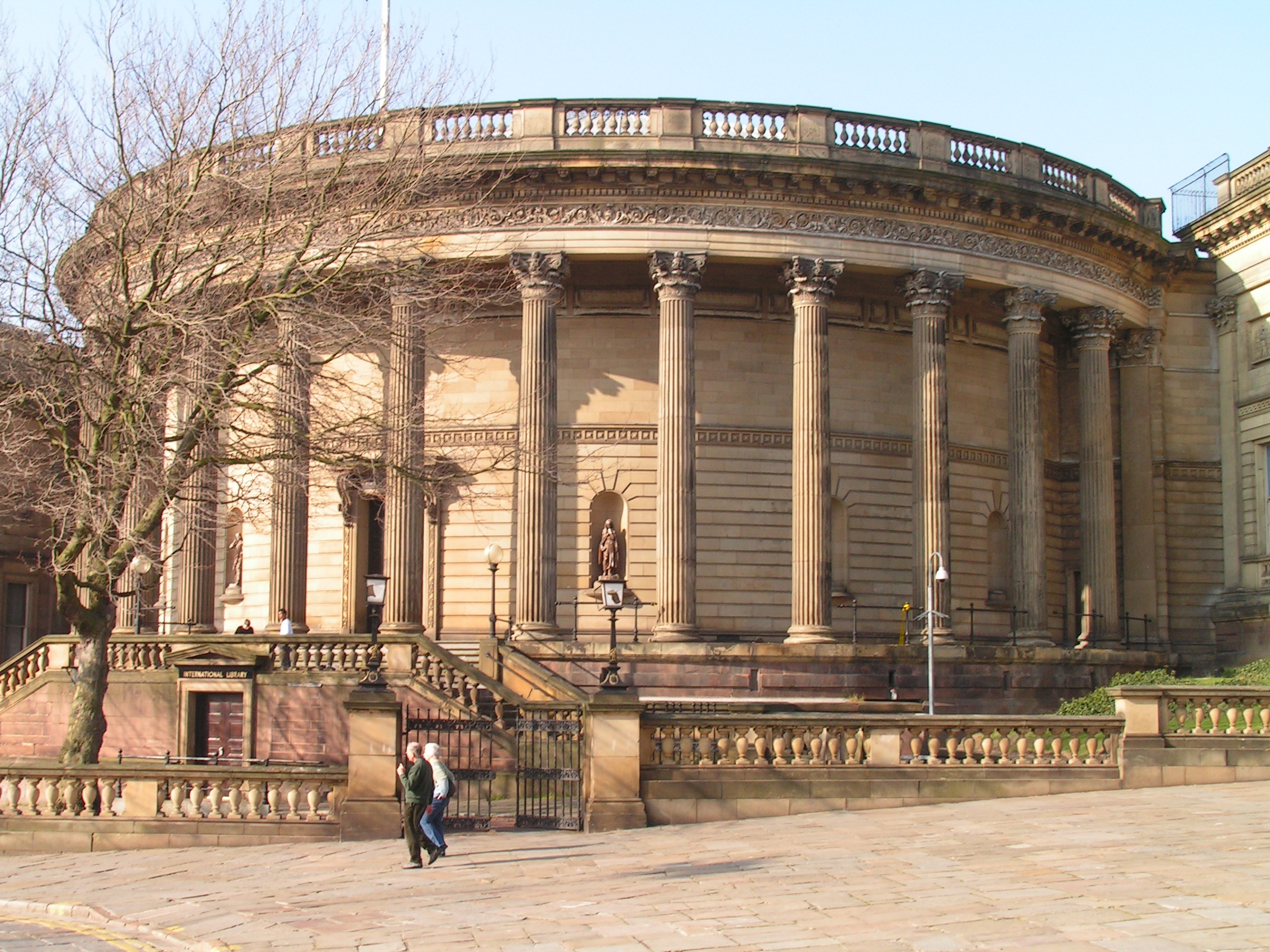 International Library, Liverpool Picton Reading Room and Hornby Library